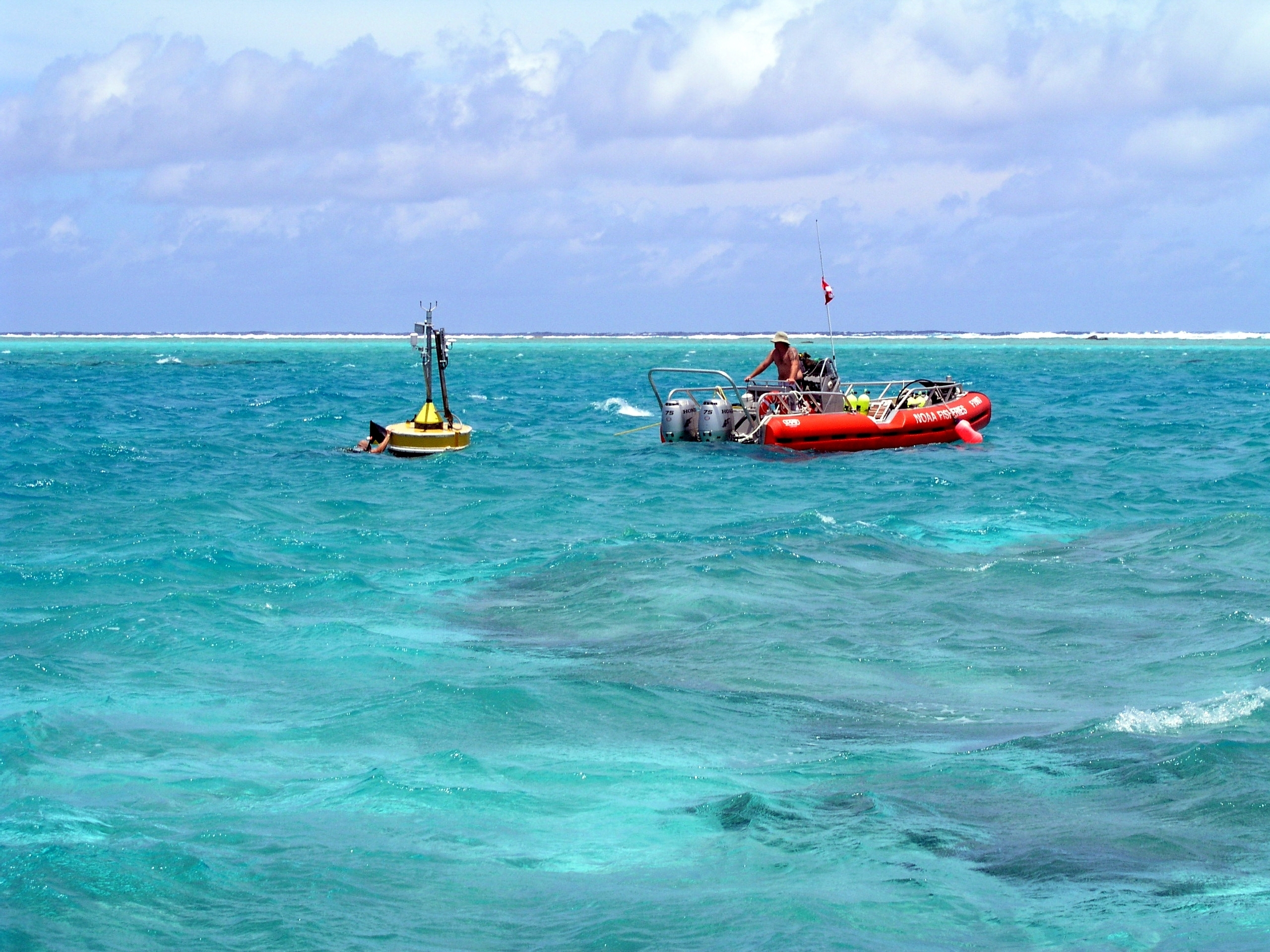 Oceanographers deploy a CREWS buoy inside an atoll. American Samoa, Rose Atoll.